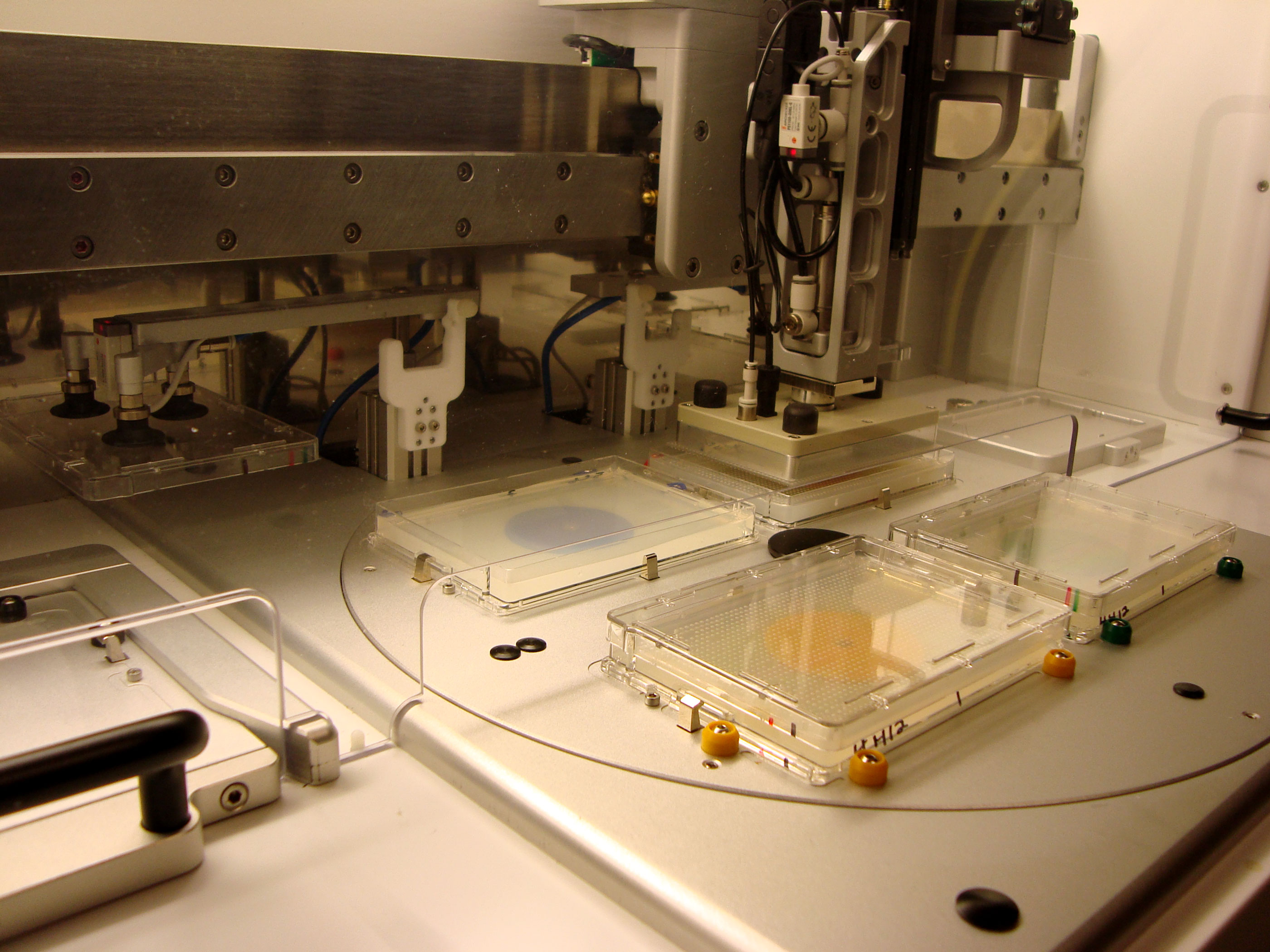 Pinning robot while pinning yeast arrays.